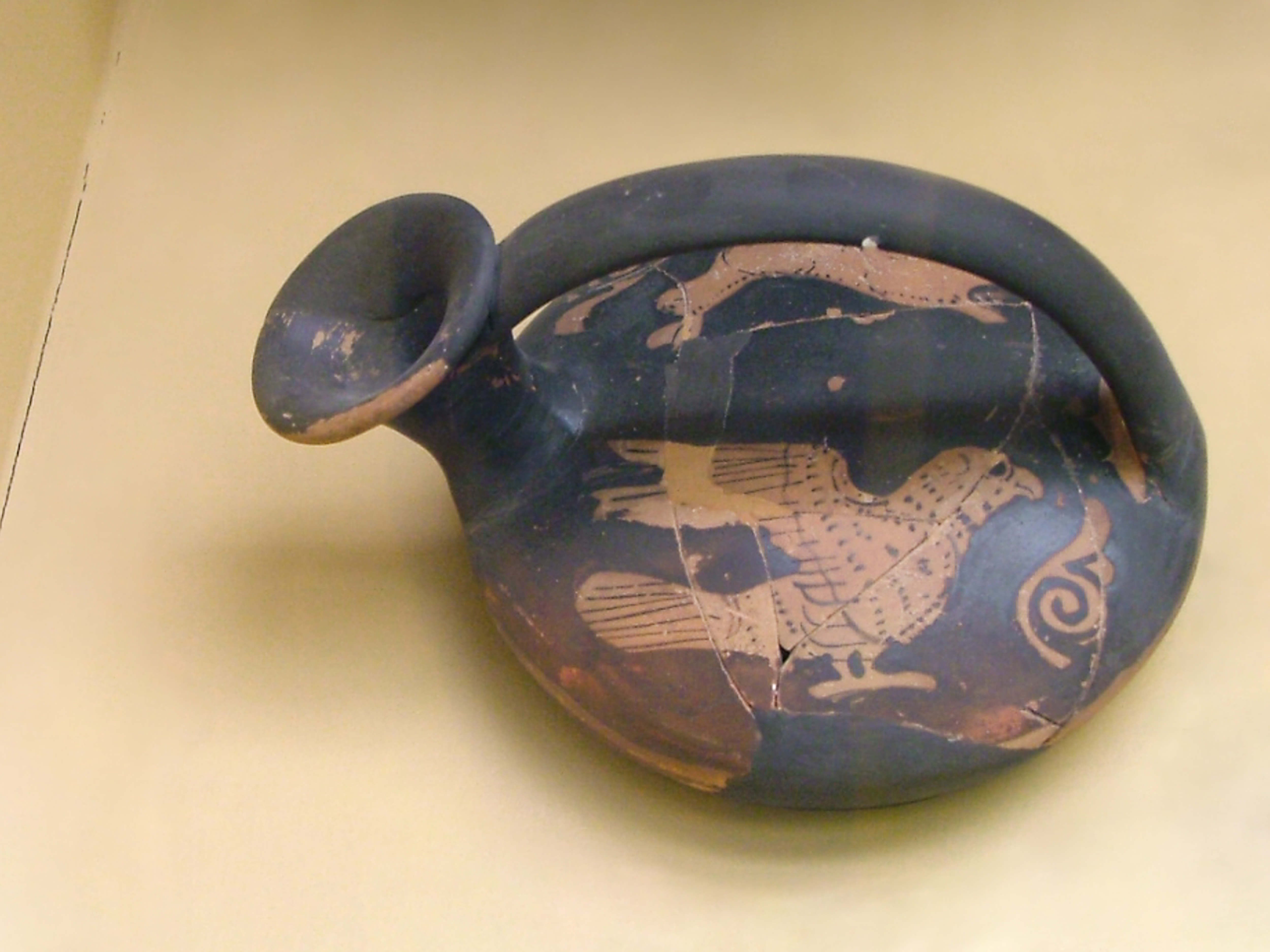 Askos de figuras rojas que representa una liebre y un águila. Ca. 420-410 a. C. Museo del Ágora de Atenas.